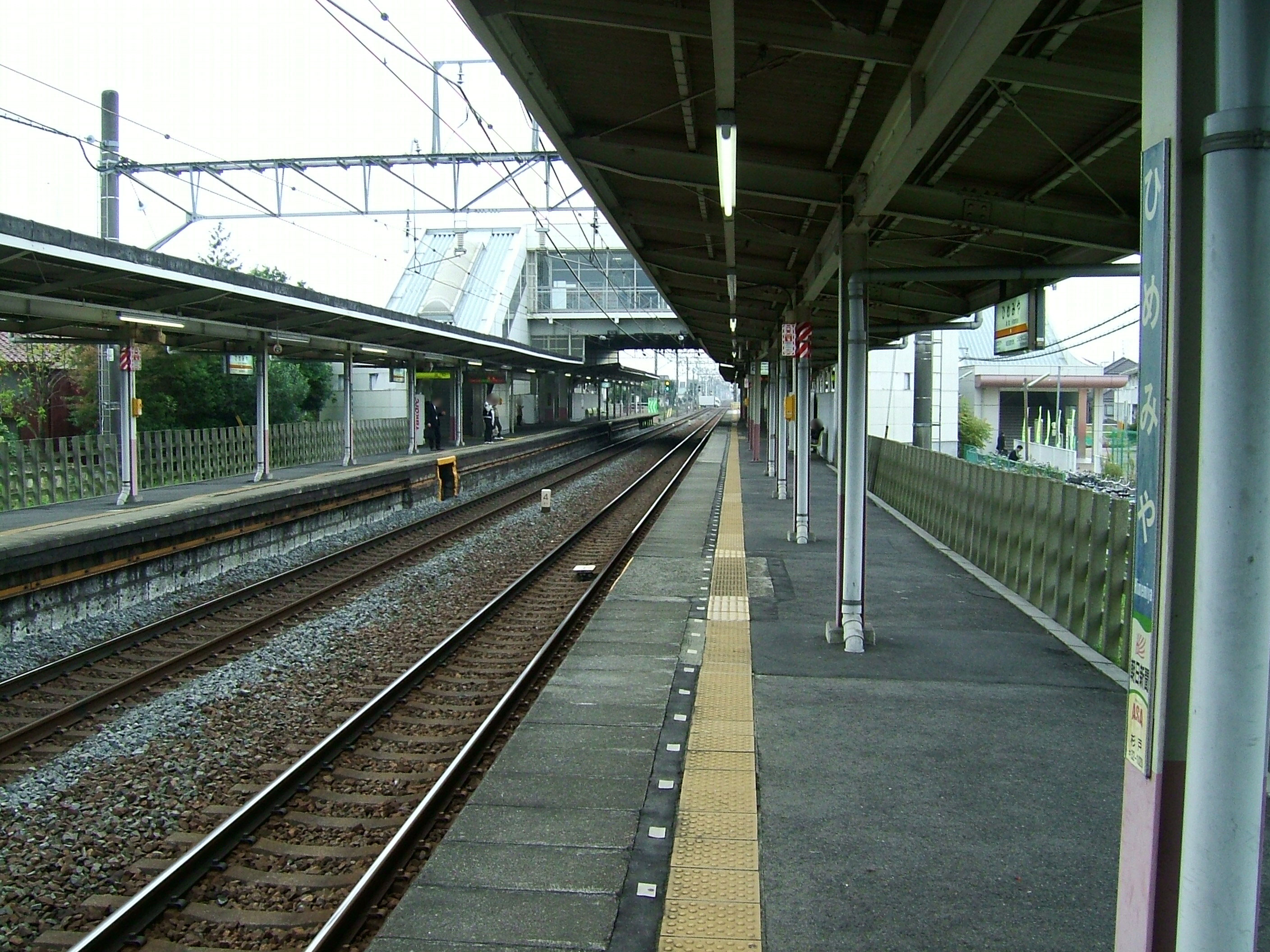 The platform at Himemiya Station on the Tobu Isesaki Line in Saitama Prefecture, Japan